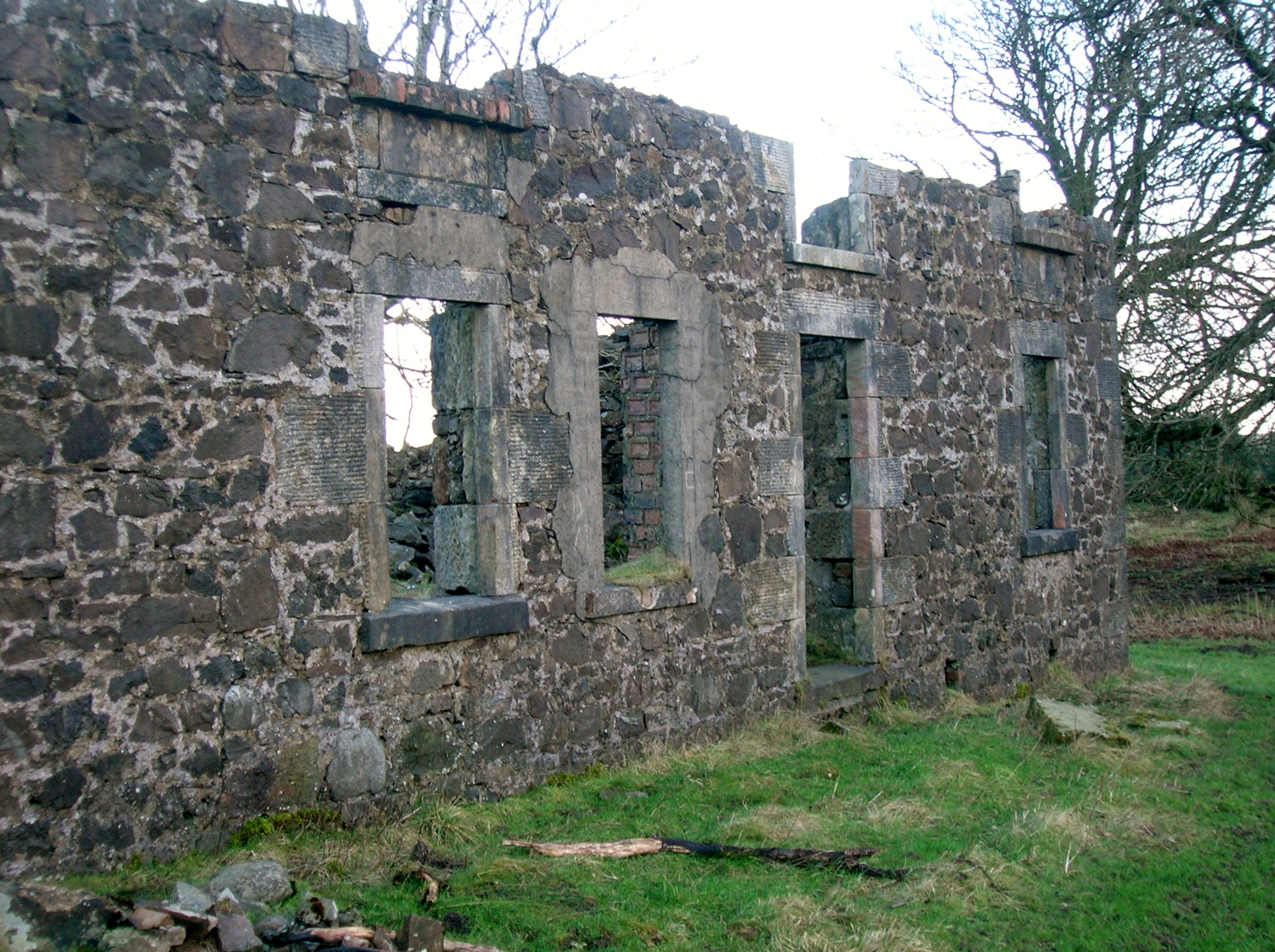 Rakerfield ruins, frontage, Beith, North Ayrshire, Scotland.